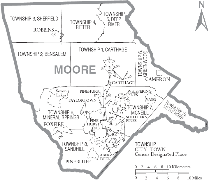 Map of Moore County, North Carolina, United States with township and municipal boundaries